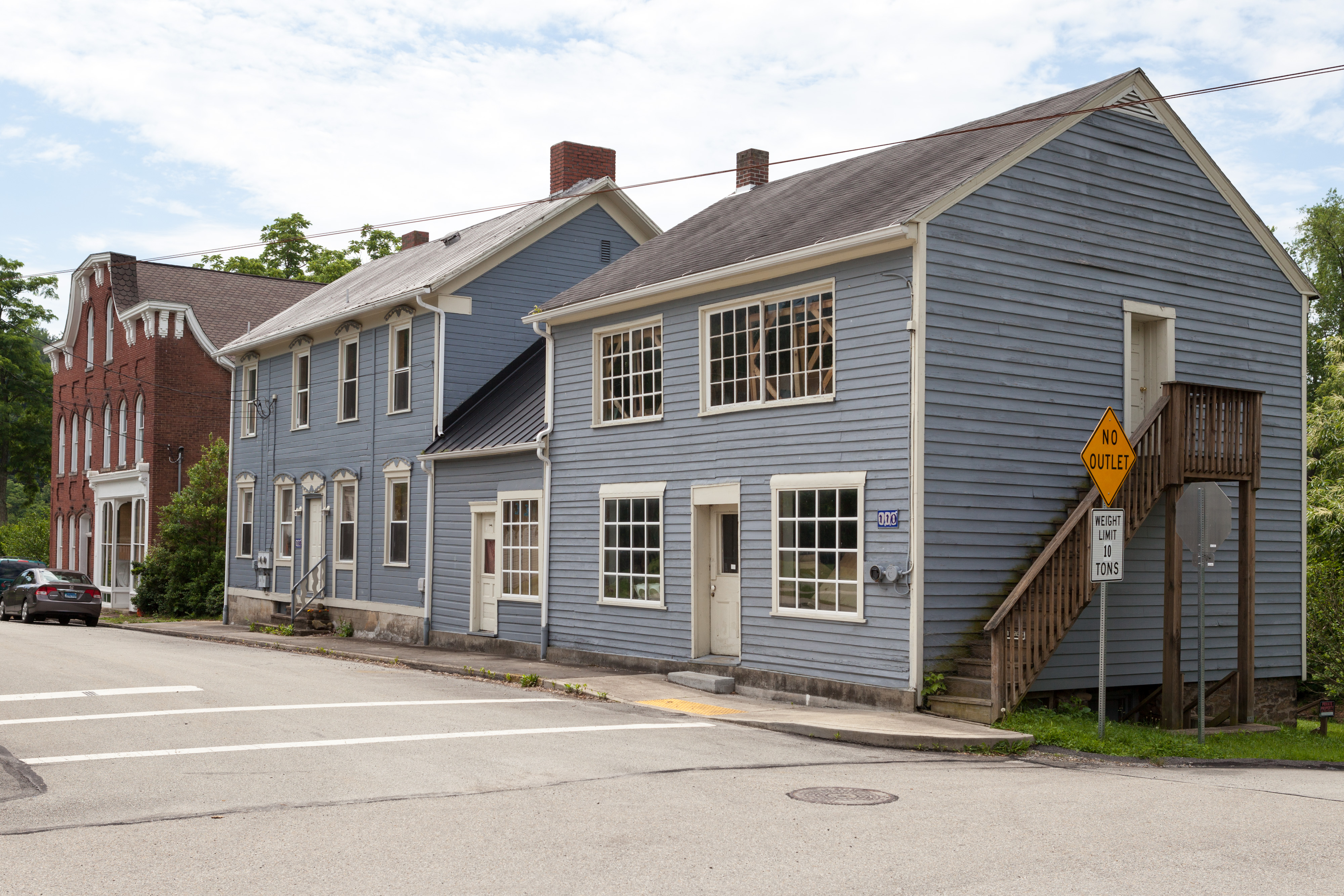 A portion of the Greensboro Historic District in Pennsylvania, looking southeast down County Street from its intersection with 1st Street.